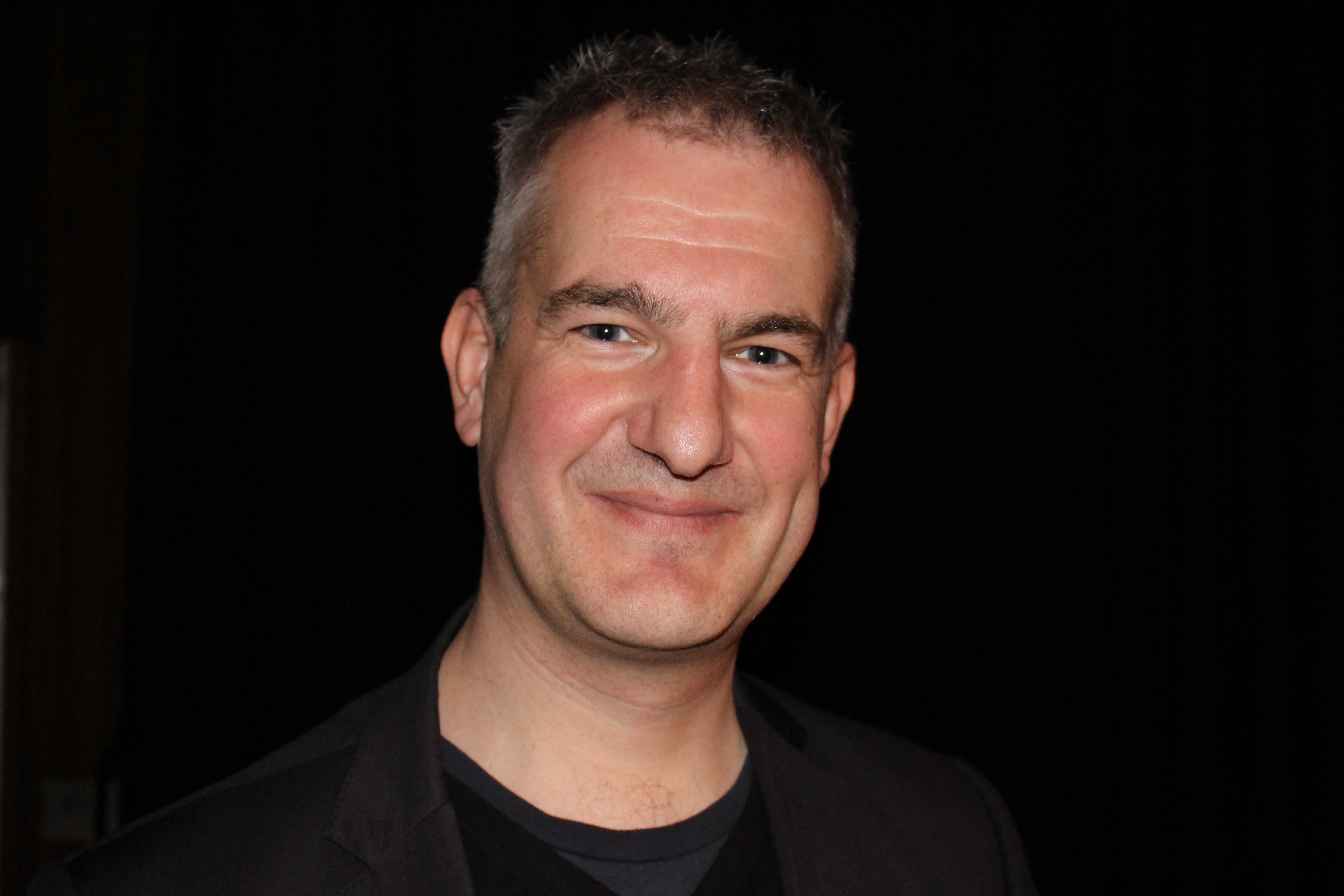 Psychology writer